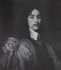 Charles Gerard, 1st Earl of Macclesfield (c1618-1694)